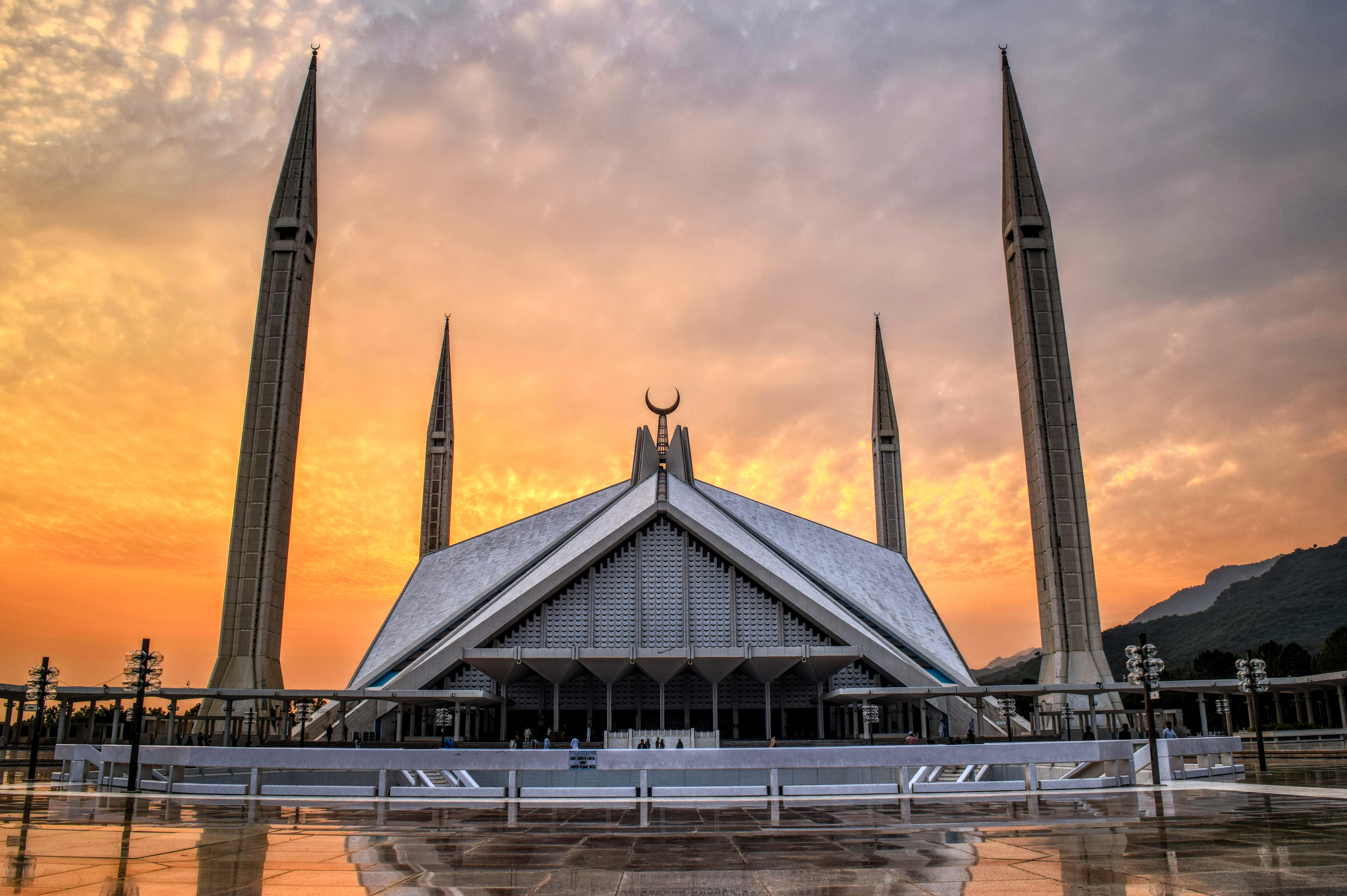 Faisal Mosque This is a photo of a monument in Pakistan identified as the ICT-5